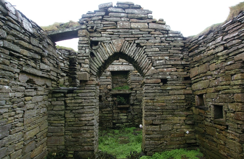 Eynhallow Church, Eynhallow, Orkney, Scotland - in the nave looking east towards the chancel